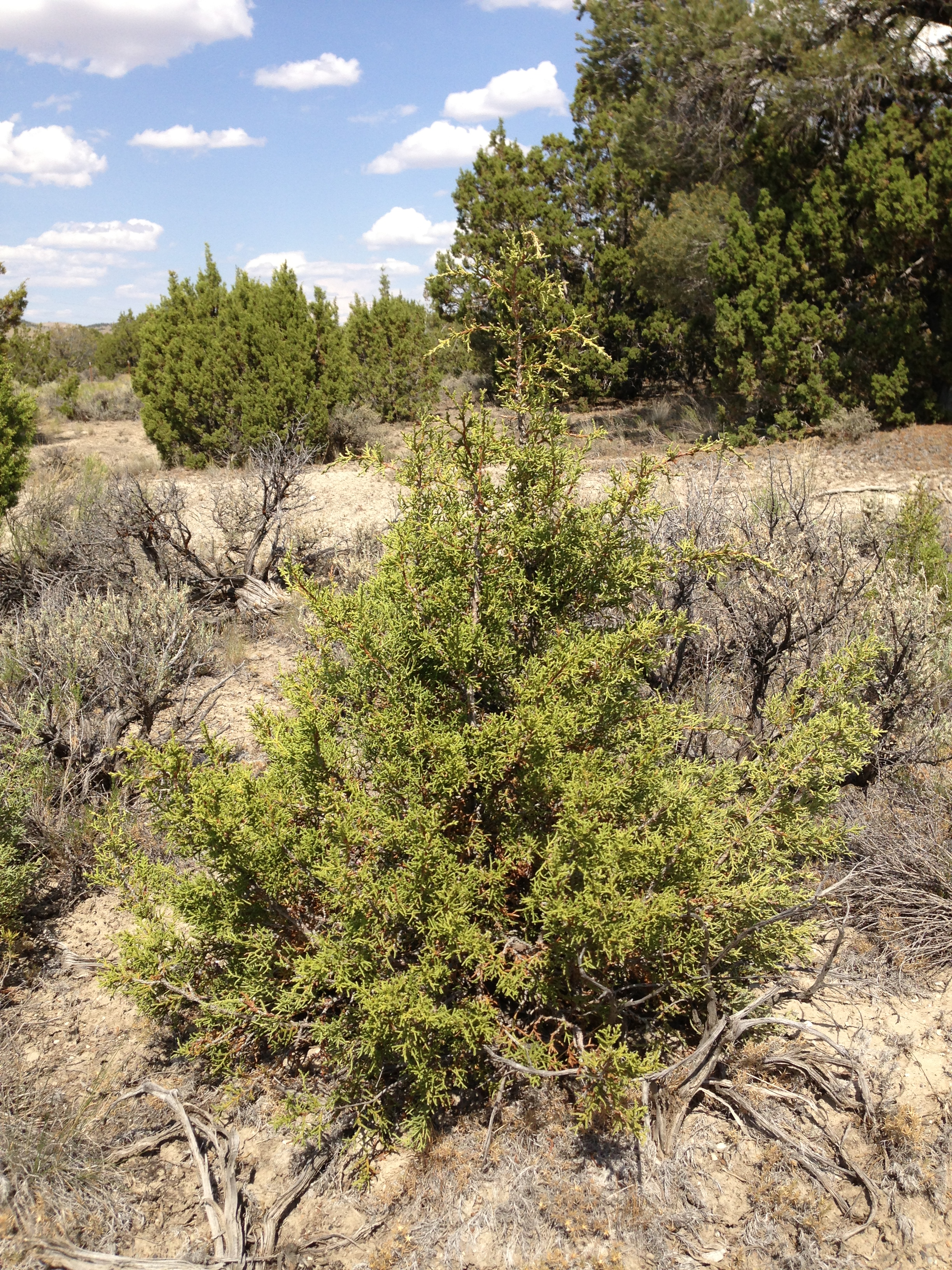 Juniperus osteosperma (Utah Juniper) sapling along Interstate 80 east of Wells in central Elko County, Nevada